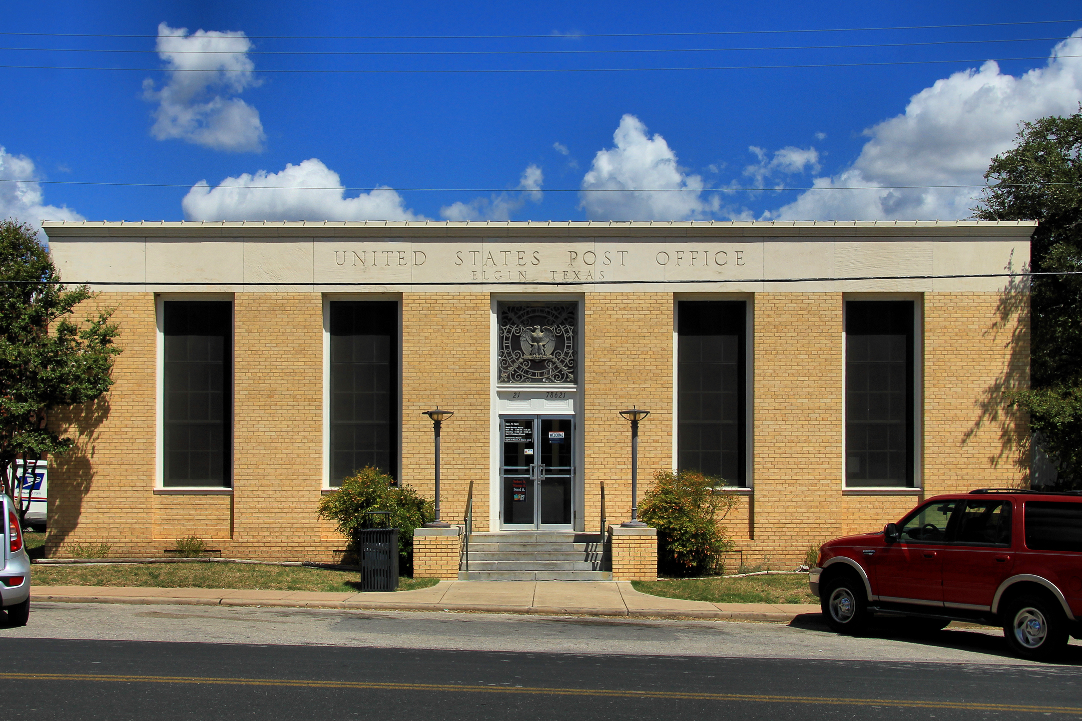 The Elgin Post Office in Elgin, Texas, United States.